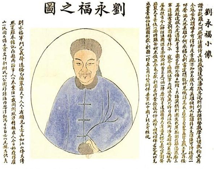 Xinwenzhi of Chinese Military man Liu Yongfu, who defeated the French army several times in the Sino-French War 1884-1885. No copyright law existed in China at that time, image in public domain.